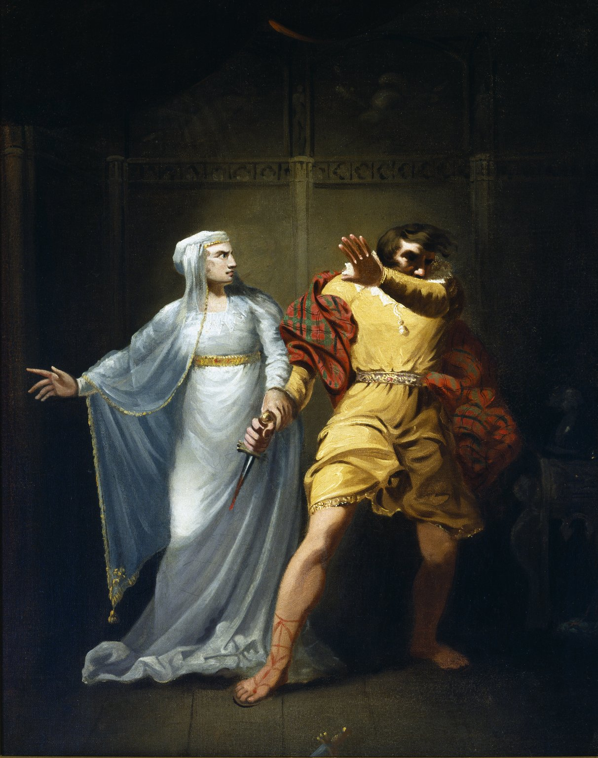 From Act II, Scene 2 of William Shakespeare's Macbeth